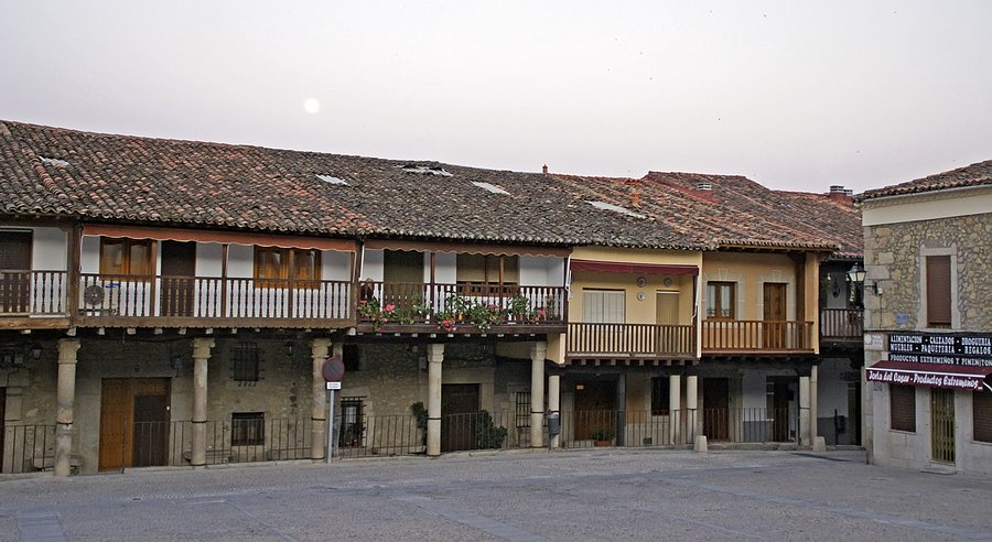 Plaza Mayor